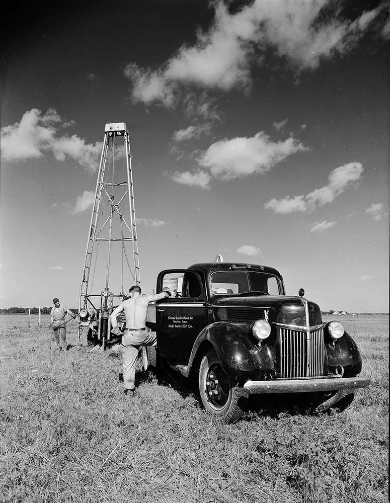 Title: [Workers performing seismic tests, Seismic Explorations, Inc.] Creator: Richie, Robert Yarnall Date: July - October 1940 Part Of: Robert Yarnall Richie Photograph Collection Physical Description: 1 negative: film, black and white; 12.9 x 10.5 cm. File: ag1982_0234_2166_02_seismicexpl_sm_opt.jpg Rights: Please cite Southern Methodist University, Central University Libraries, DeGolyer Library when using this image file. A high-quality version of this file may be obtained for a fee by contacting . For more information, see: View the Robert Yarnall Richie Photograph Collection